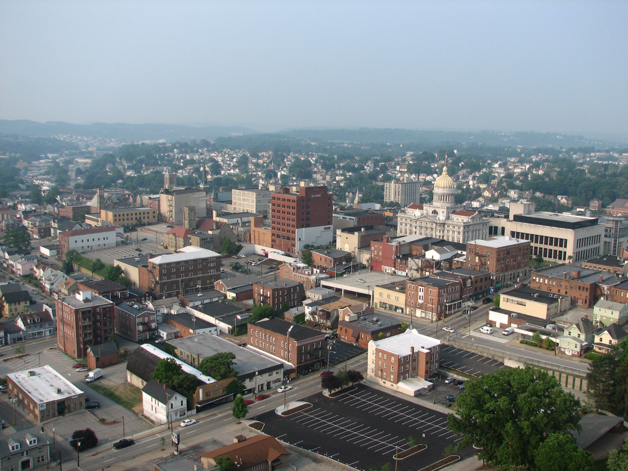 Downtown Greensburg, Pennsylvania as seen from the air